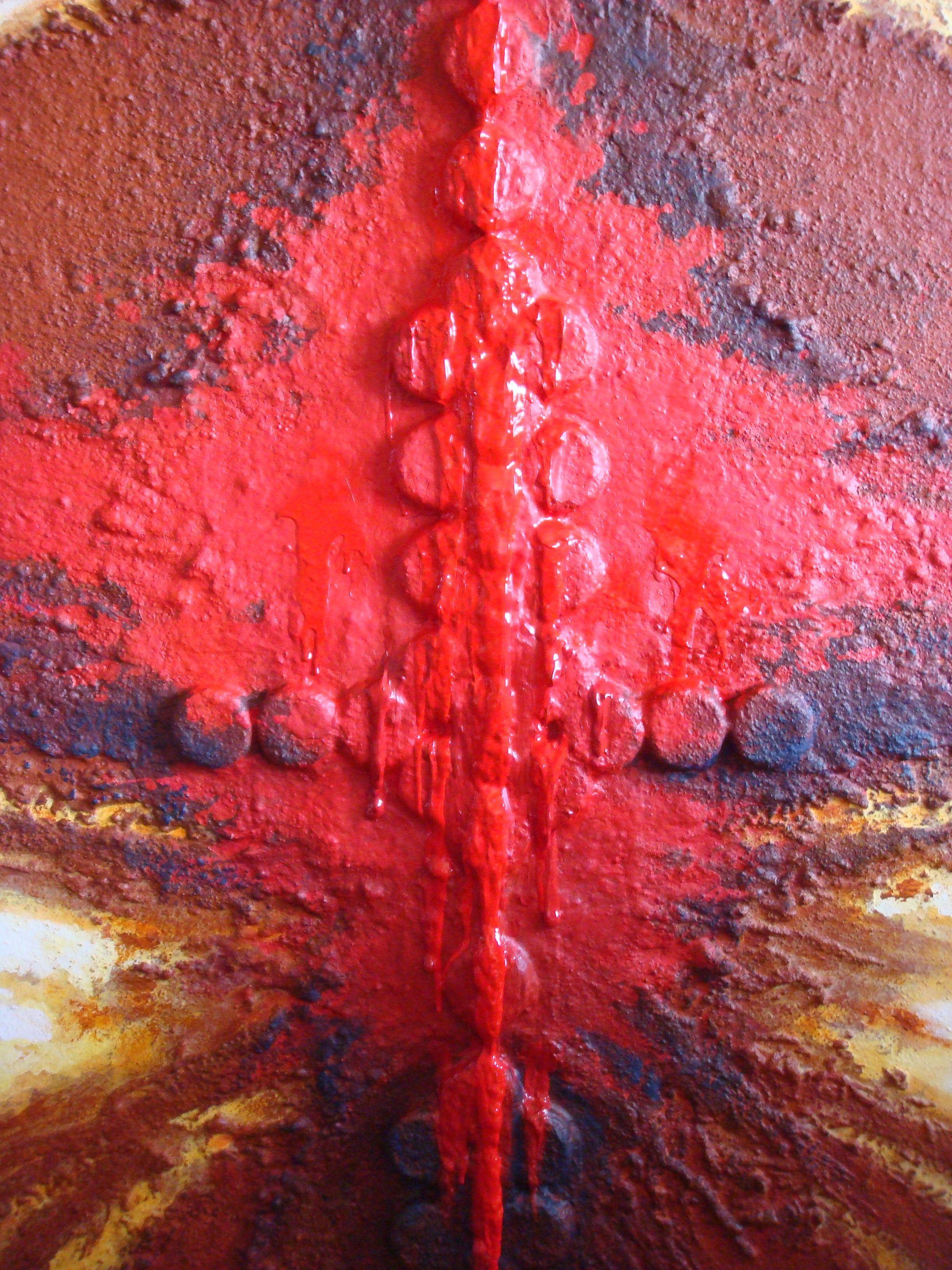 Jiménez-Balaguer Detail 2013